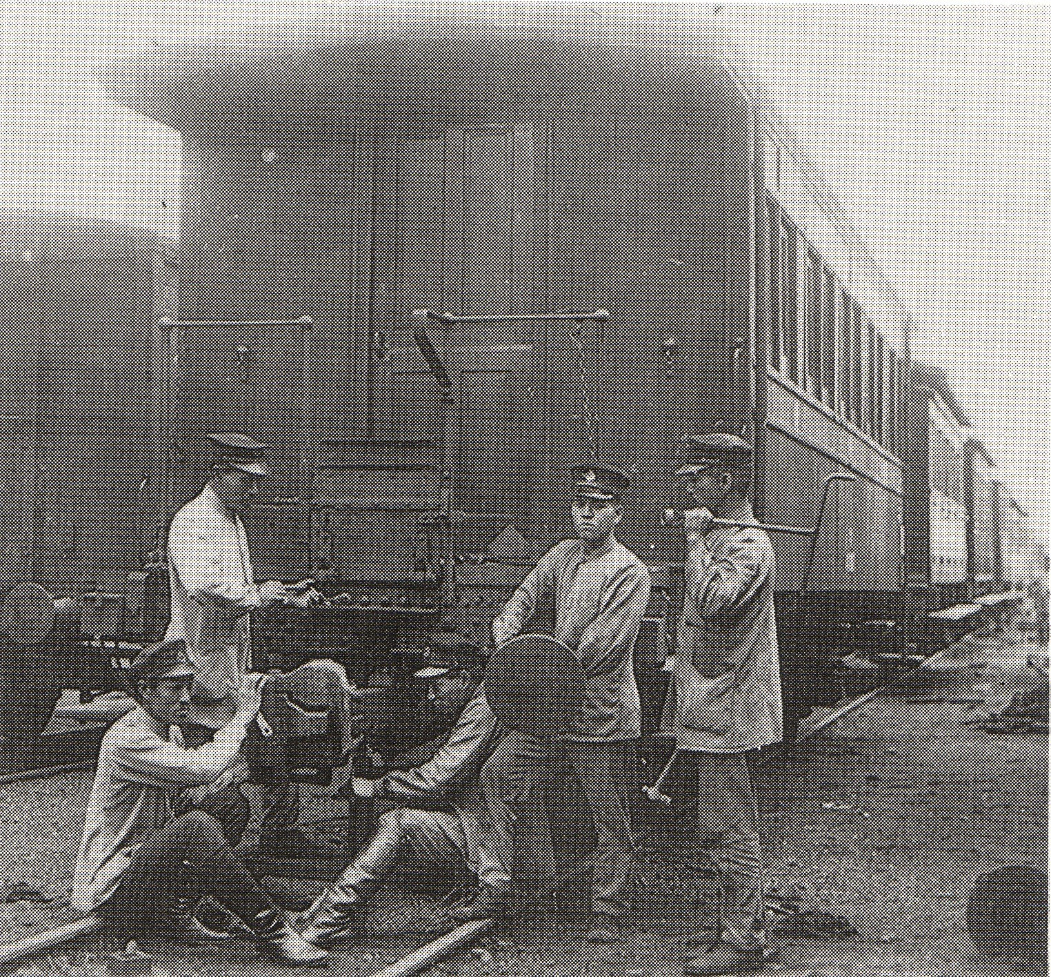 Conversion works from screw coupler to Janney coupler in Japanese Governmental Railway. The works were conducted in July 17 1925 in Honshu, and July 20 1925 in Kyushu.